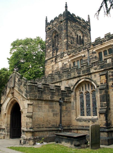 Photograph of the parish church of St. Michael and Our Lady, Wragby, Yorkshire, burial place of Sir Thomas Gargrave and his son Sir Cotton Gargrave.